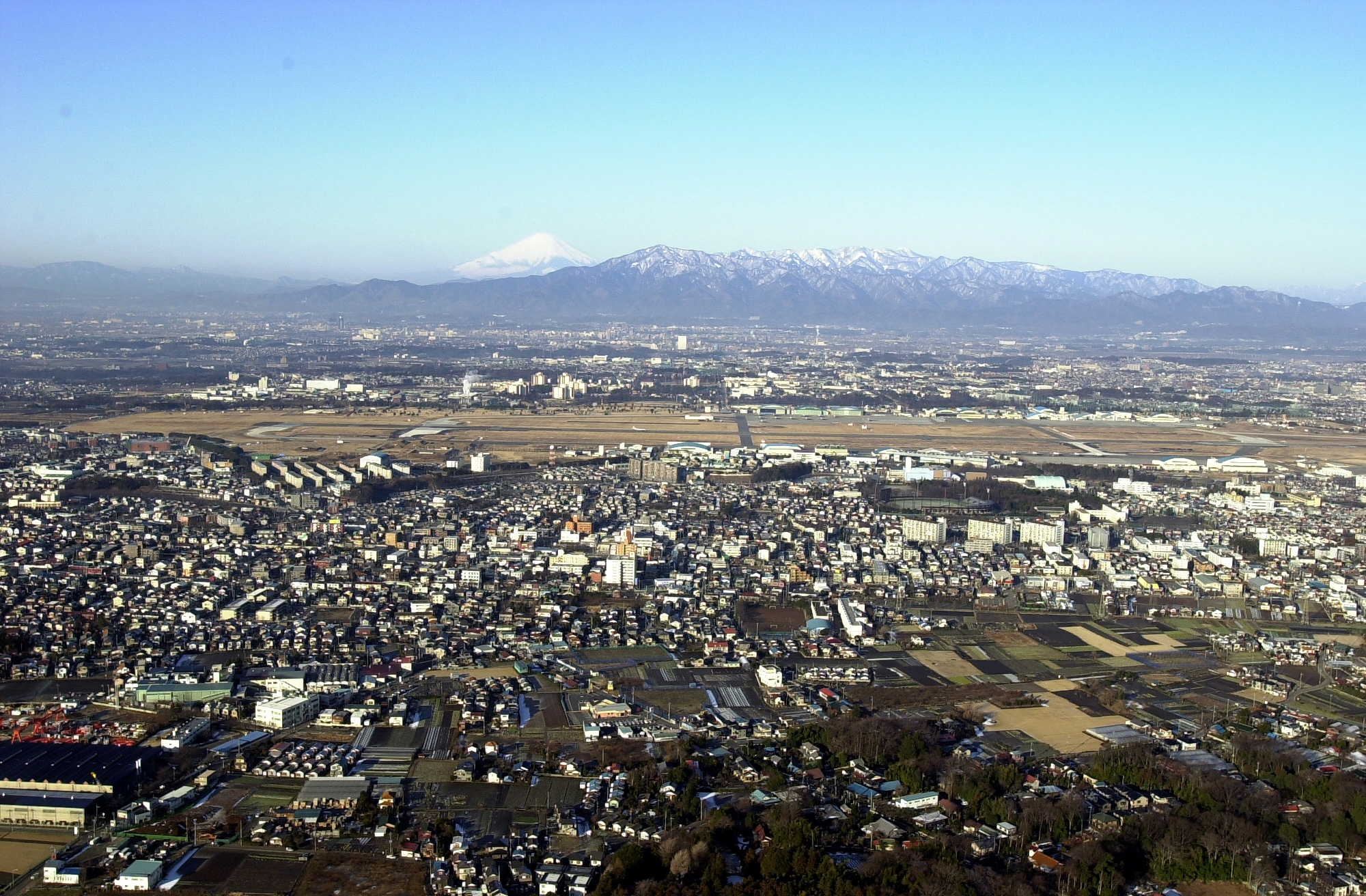 An aerial view of the Naval Air Facility (NAF) located in Atsugi, Japan, with Mt. Fuji displayed in the background. U.S. Navy photo by Photographer’s Mate 3rd Class Michael Pusnik. (RELEASED)